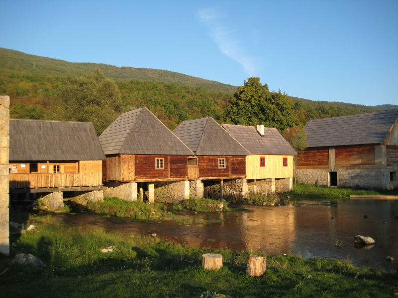 karst spring of river Gacka: Majerovo vrilo, near Otočac, Croatia.